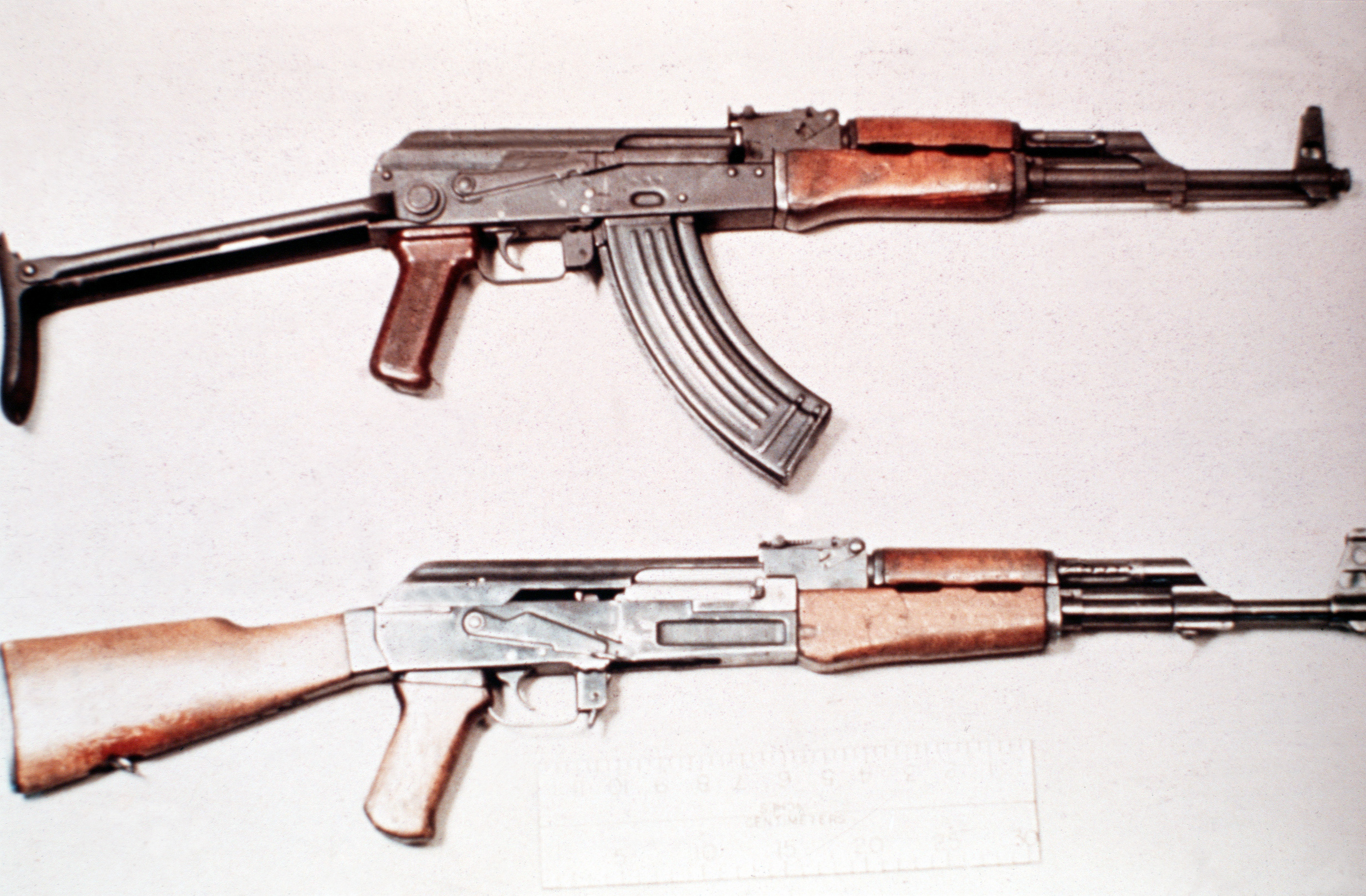 A Soviet 7.62 mm AKM asssault rifle with a folding double-strut stock and a 30-round magazine, top, compared with a standard Soviet AK-47 assault rifle, bottom. Note that top rifle has a stamped receiver and the bottom rifle is milled.